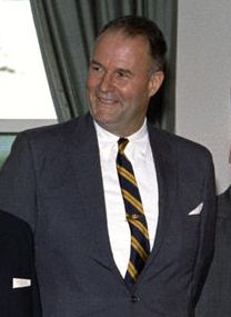 President John F. Kennedy attends poultry tariff meeting. Left to right: President of the Georgia Poultry Federation, Cliff Clegg; President of the Cotton Producers Association (CPA), D. W. Brooks (mostly hidden); Governor of Mississippi, Ross Barnett; Governor of Georgia, Ernest Vandiver; President Kennedy; Governor of Maryland, J. Millard Tawes; Governor of Delaware, Elbert N. Carvel; Commissioner of the North Carolina Department of Agriculture, L. Y. Ballentine; unidentified (in back, partially hidden); Commissioner of the Florida Department of Agriculture, Doyle E. Conner (mostly hidden on edge of frame). Oval Office, White House, Washington, D.C.